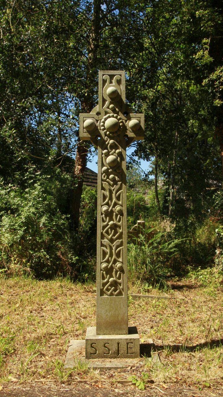 Stone cross in SS Mary and John parish churchyard, Oxford, England, commemorating monks of the Society of St John the Evangelist